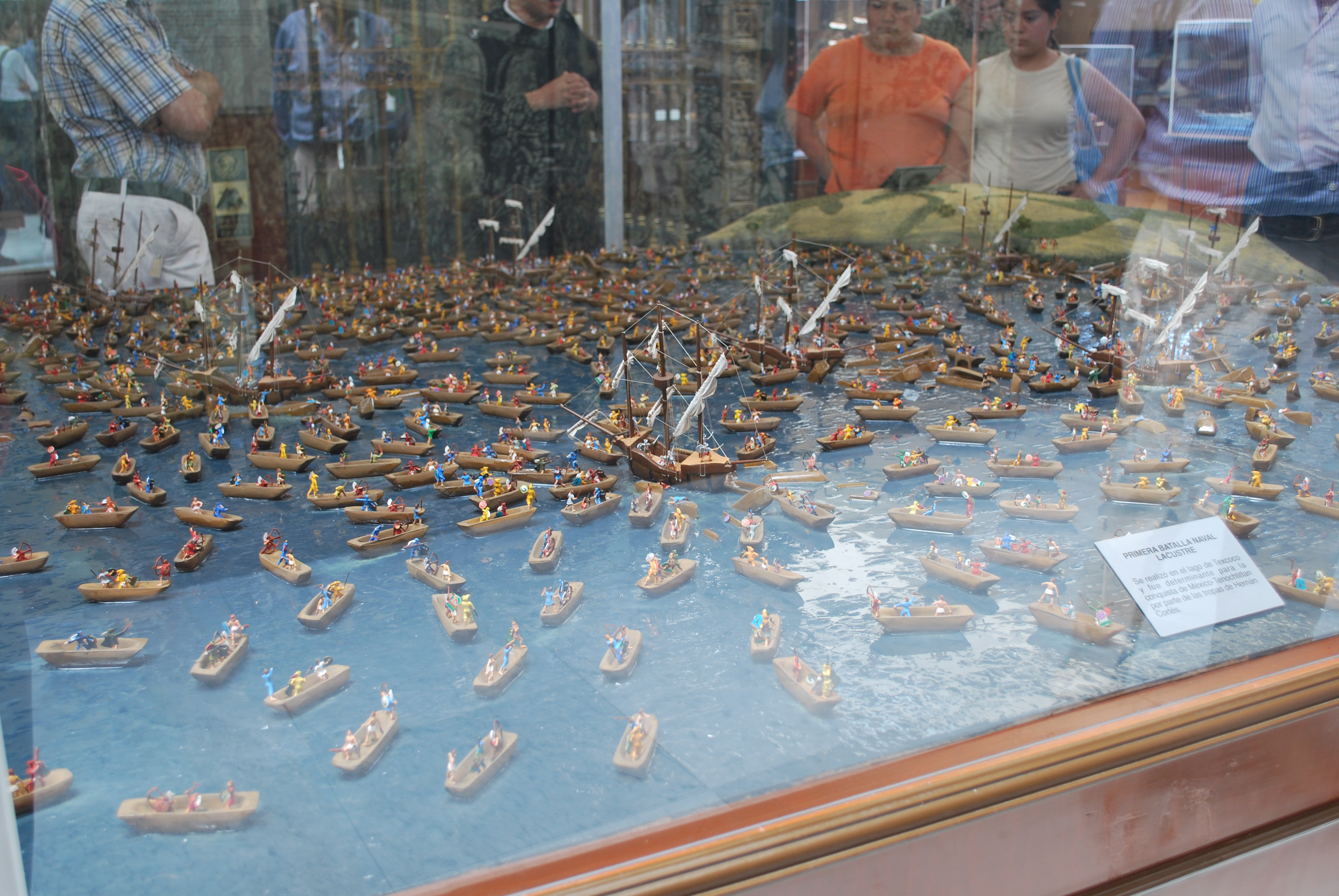 Model depicting the first lake battle between Cortes and the Aztecs during the Spanish conquest of Mexico. On display at the Naval History Museum in Mexico City